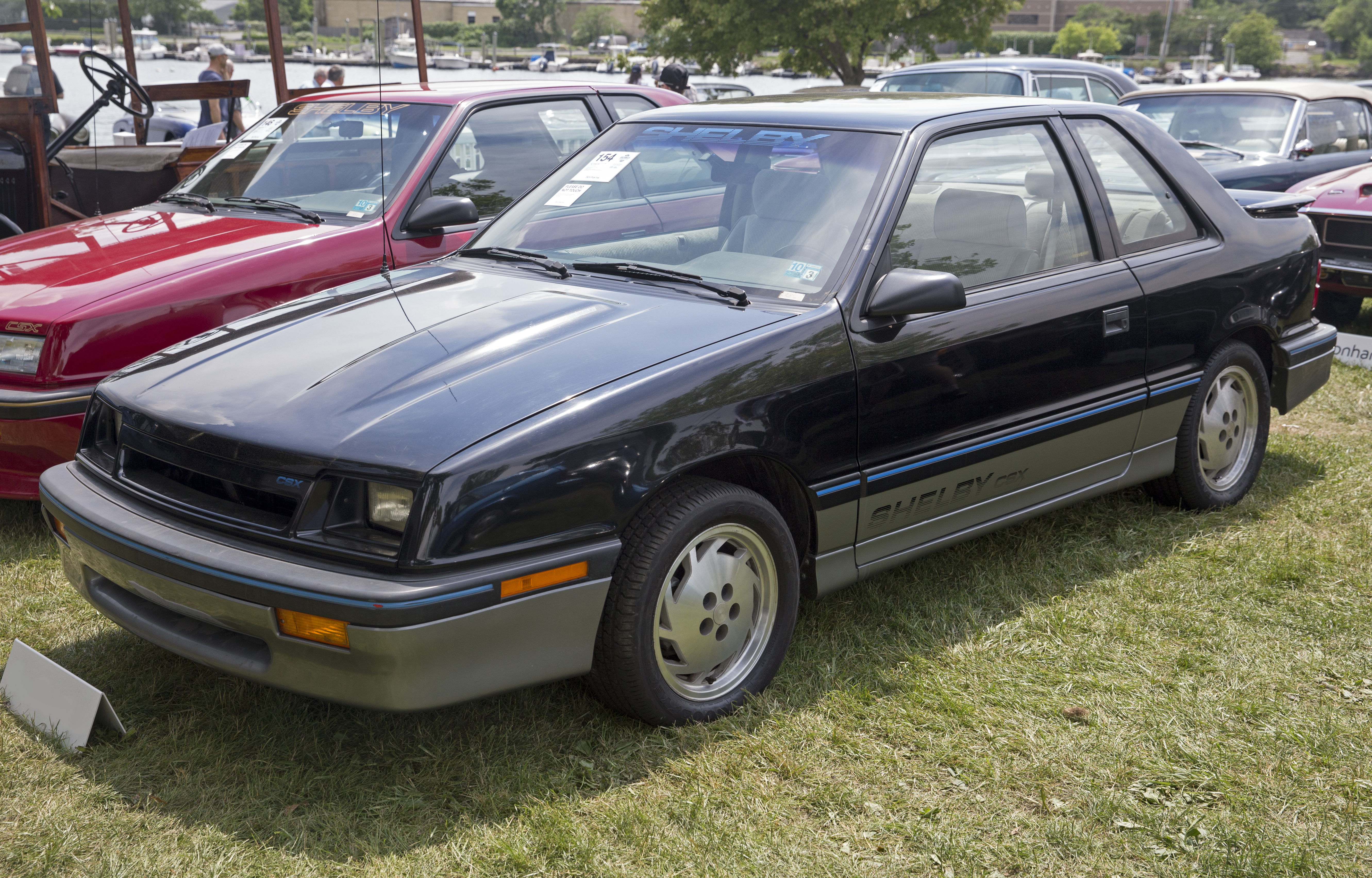 A 1987 Dodge CSX, number 1 of 750 built. From Carroll's personal collection and sold for $16,800 at the 2018 Greenwich Concours d'Elegance. From the Bonhams blurb: "The [CSX] recipe remained similar enough to their previous efforts. A 2.2-liter inline turbo 4 cylinder provided 175hp to the front wheels through a 5-speed manual Getrag gearbox. However, new additions included a larger turbo, an AiResearch T3, supplying peak boost of 12psi through an air-to-air intercooler. 0-60 could be achieved in an impressive 7.1 seconds as a result. The suspension also saw a number of improvements with the inclusion of gas charged Monroe Formula GP struts with high rate coil-over springs which lowered the vehicle three quarters of an inch. Larger anti roll bars were also fitted on both the front and year. Kelsey-Hayes vented rotors up front and solid discs in the rear aided in the effort to reduce the high speeds the vehicle was now capable of. Shared with the Charger GLH-S, Centurion II brushed aluminum wheels were wrapped in Goodyear Eagle tires. Only 750 of these cars were completed for the 1987 model year and all were finished in identical specification. Two-tone Black and Silver paint adorned the refreshed bodywork that included unique front grill, air dam, side skirts, and spoiler. Inside, the vehicle came with some fine details in the way of a Shelby turbo gauge and simulated leather steering wheel. The CSX offered here is the first example built as noted on its numbered dash plaque and has been under the care of Carroll Shelby since it was built. The car is offered with a Shelby vehicle authenticity certificate certifying that the car was owned by Carroll Shelby."